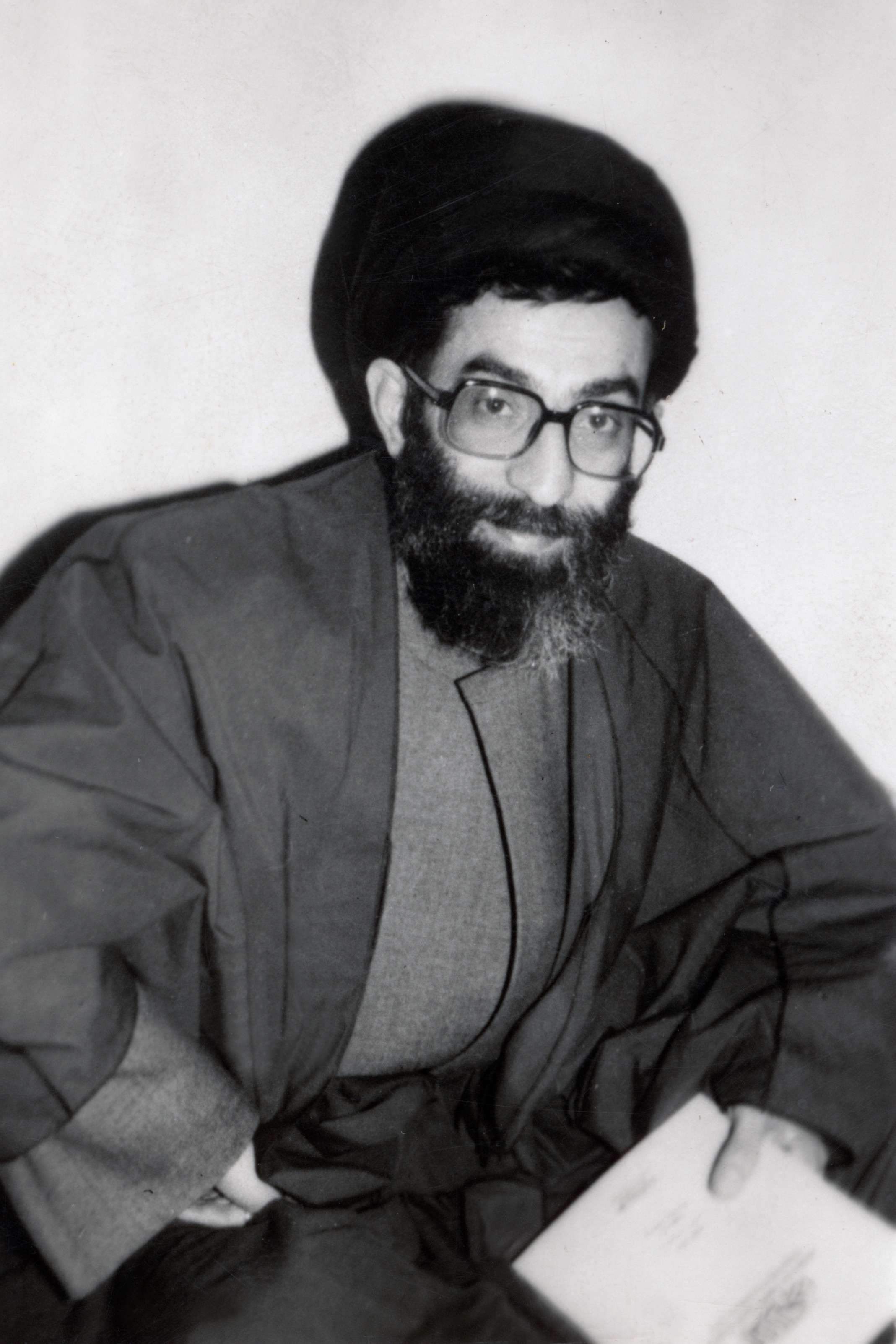 Ali Khamenei